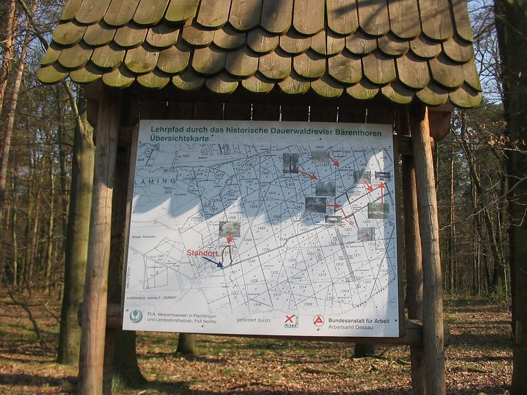 „Dauerwaldrevier“ (german for: Permanent-forest-area) Bärenthoren in the nature park Fläming, sign nature trail. The special forest was founded in 1884 by the forester Friedrich von Kalitsch. The village Bärenthoren is part of the municipality Polenzko and belongs to the the district Anhalt-Zerbst, state Saxony-Anhalt, Germany.